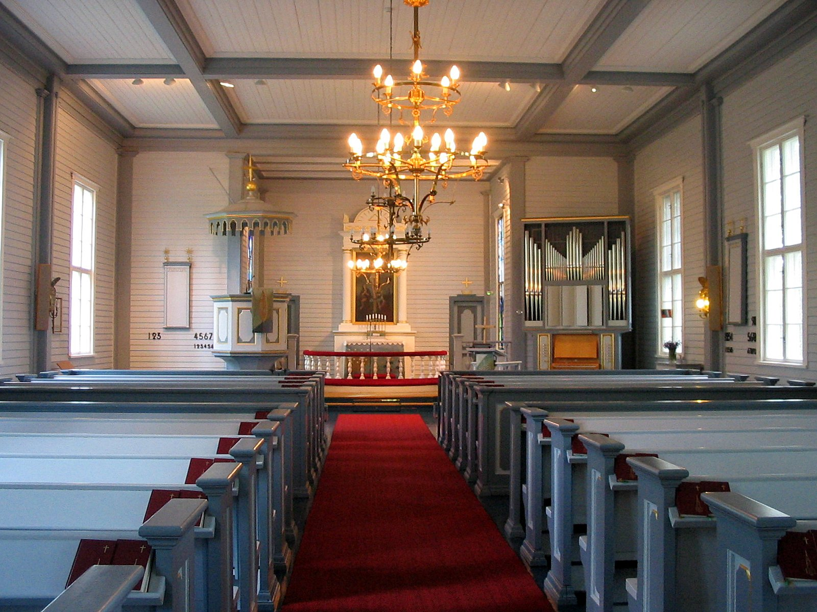 Interior of the Yli-Ii church.